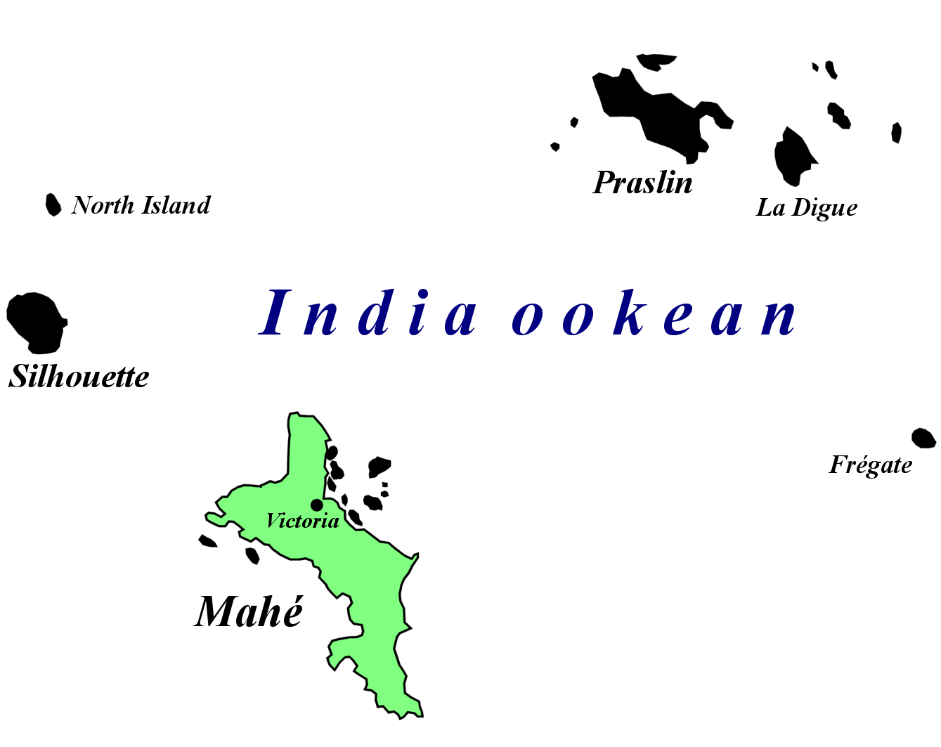 Mahé Island map